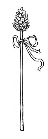 Thyrsus